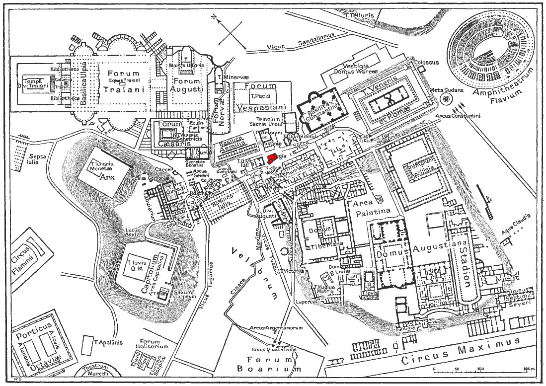 Map of antique downtown Rome, Regia is highlighted